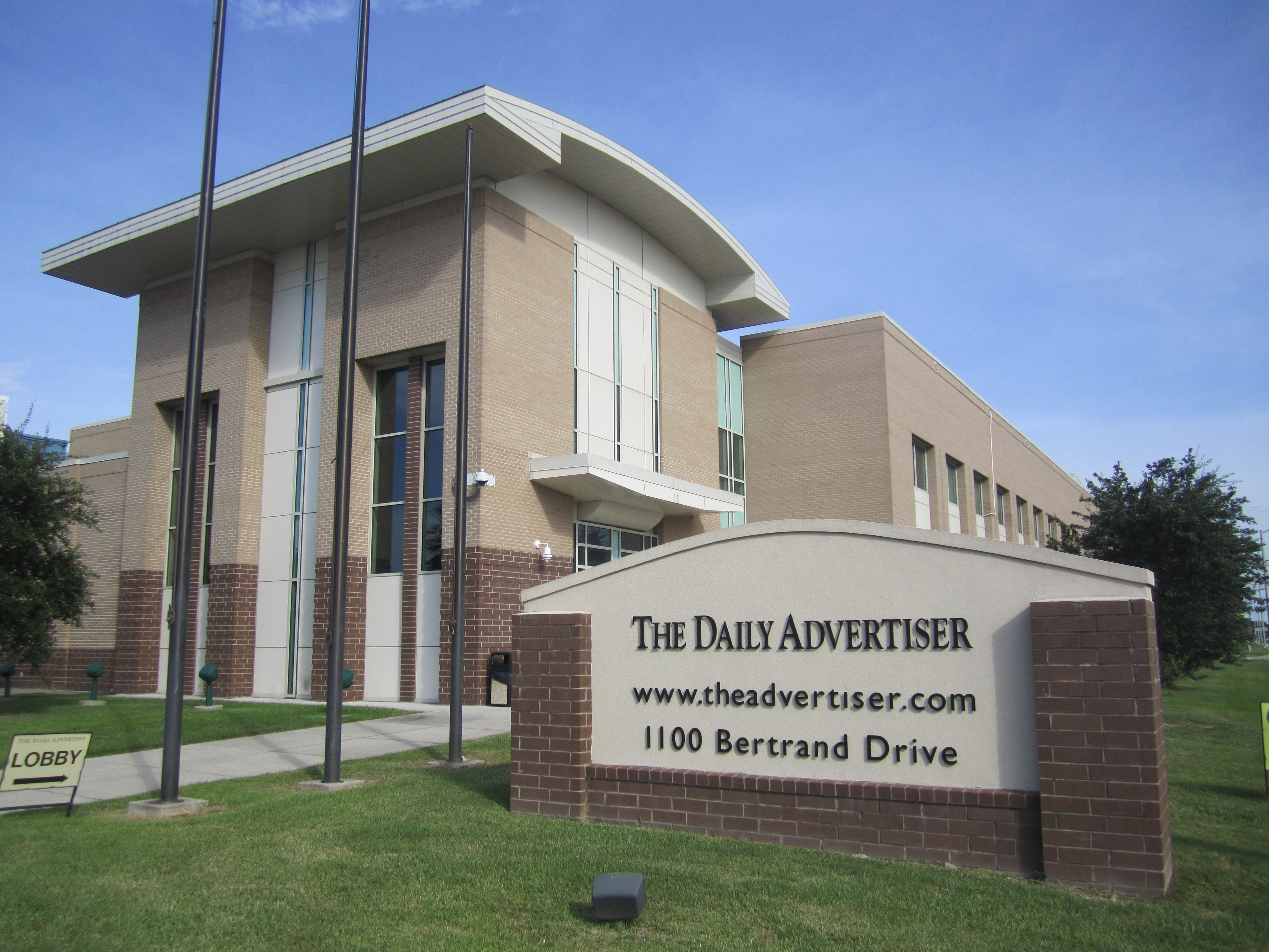 I took photo of the office of the Lafayette Daily Advertiser newspaper with Canon camera in Lafayette, LA.